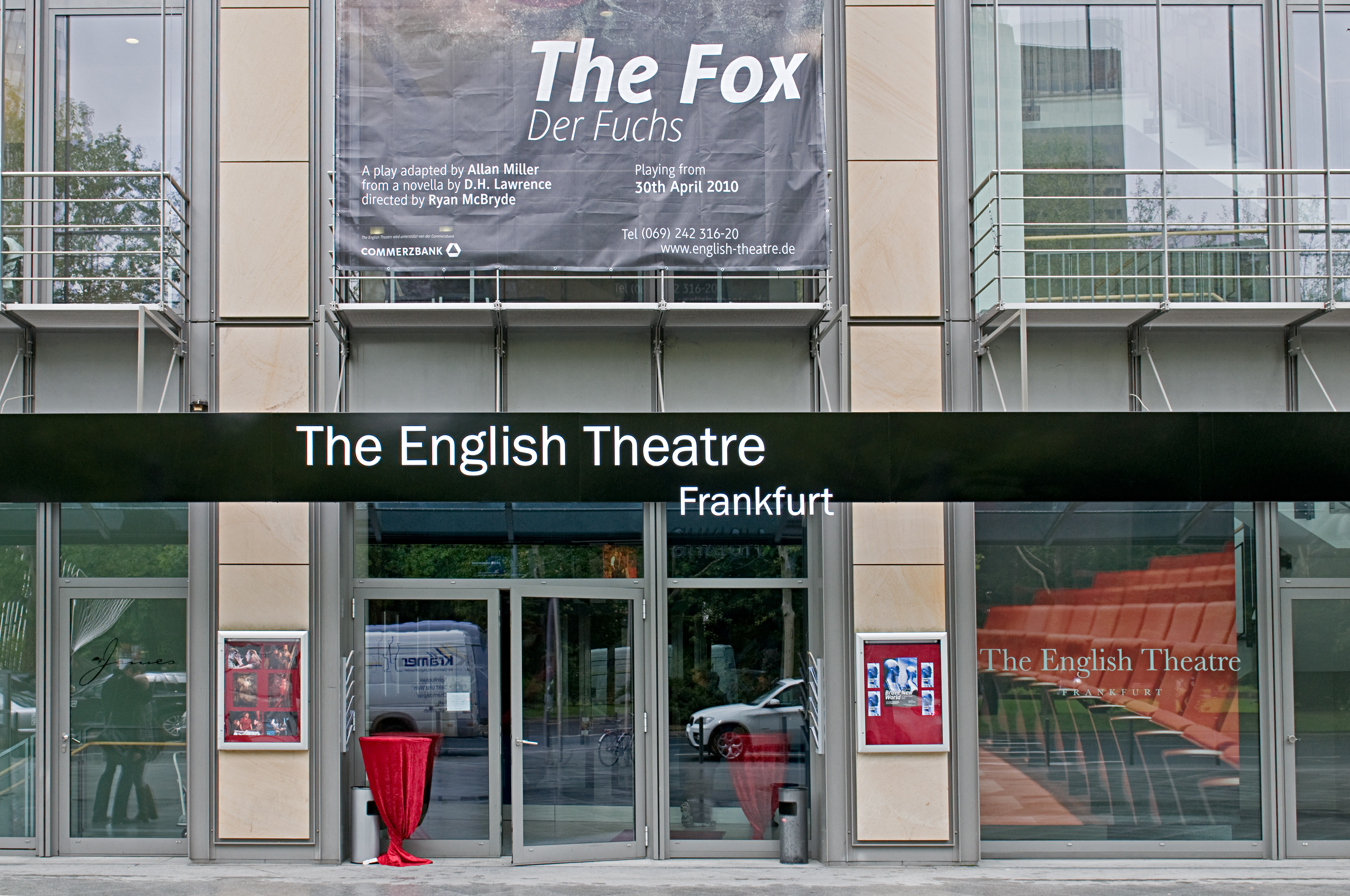 The English Theatre im Galileo, Frankfurt am Main, Bahnhofsviertel